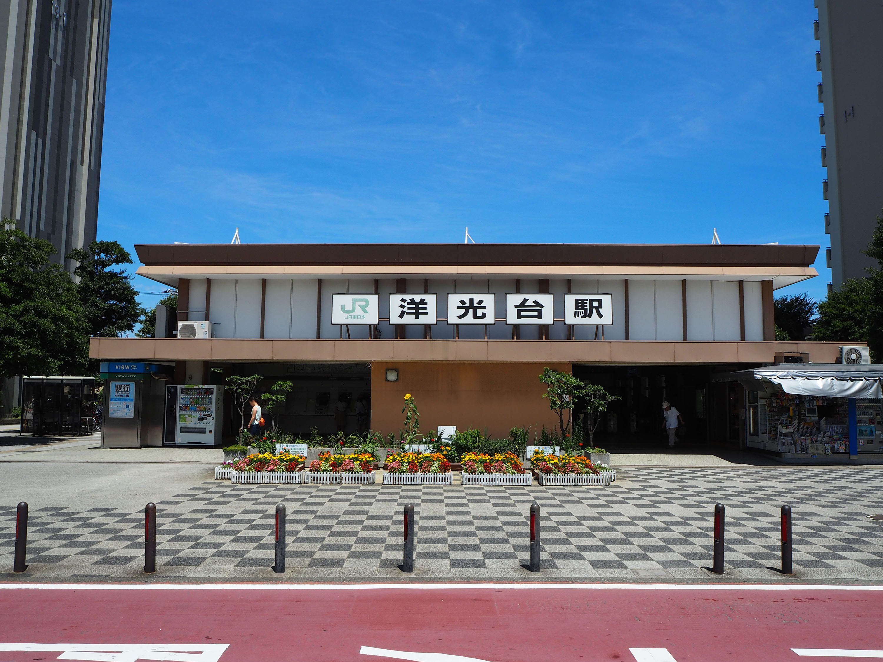 Yōkōdai Station